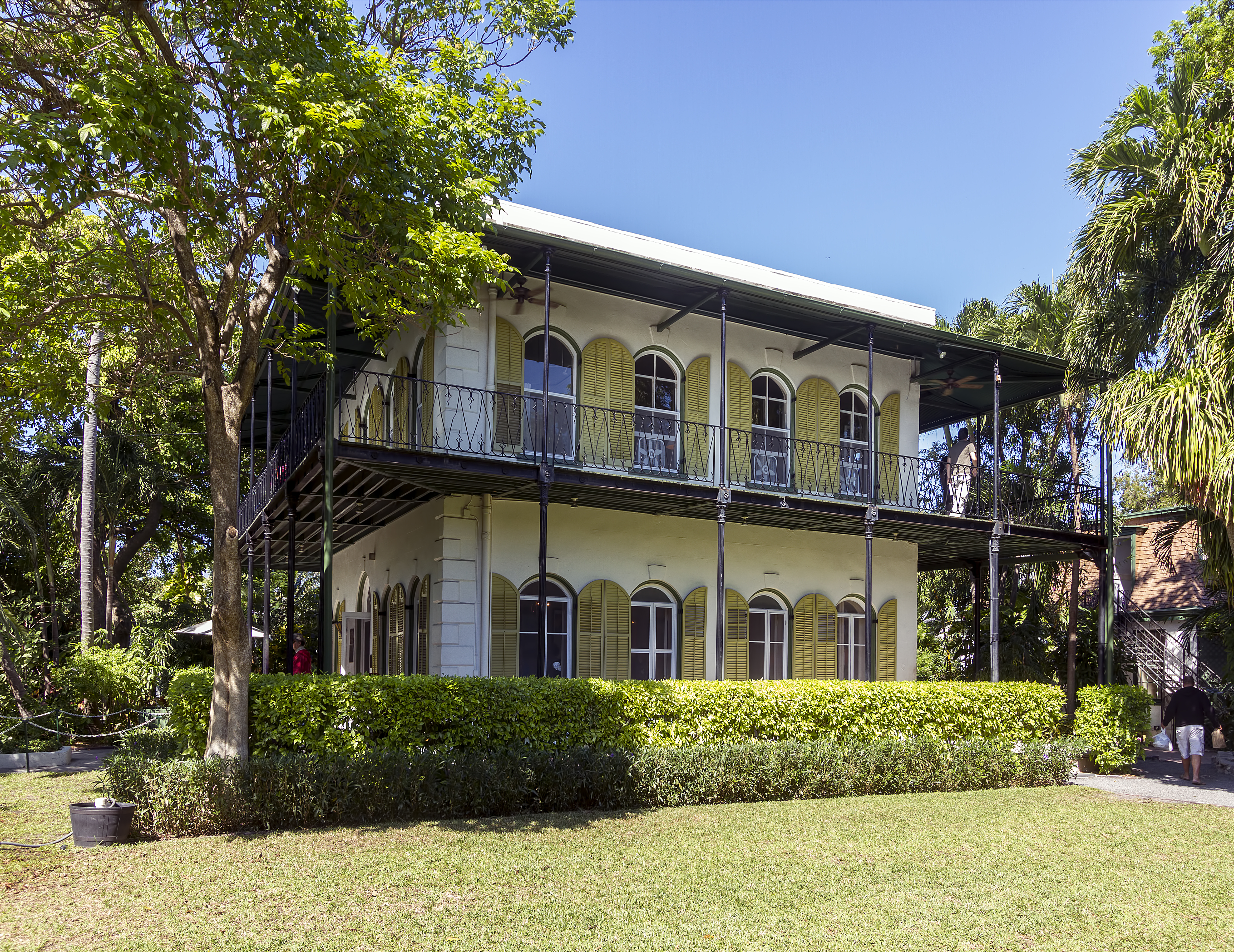 Ernest Hemingway House, the Ernest Hemingway House, Key West, Florida, USA